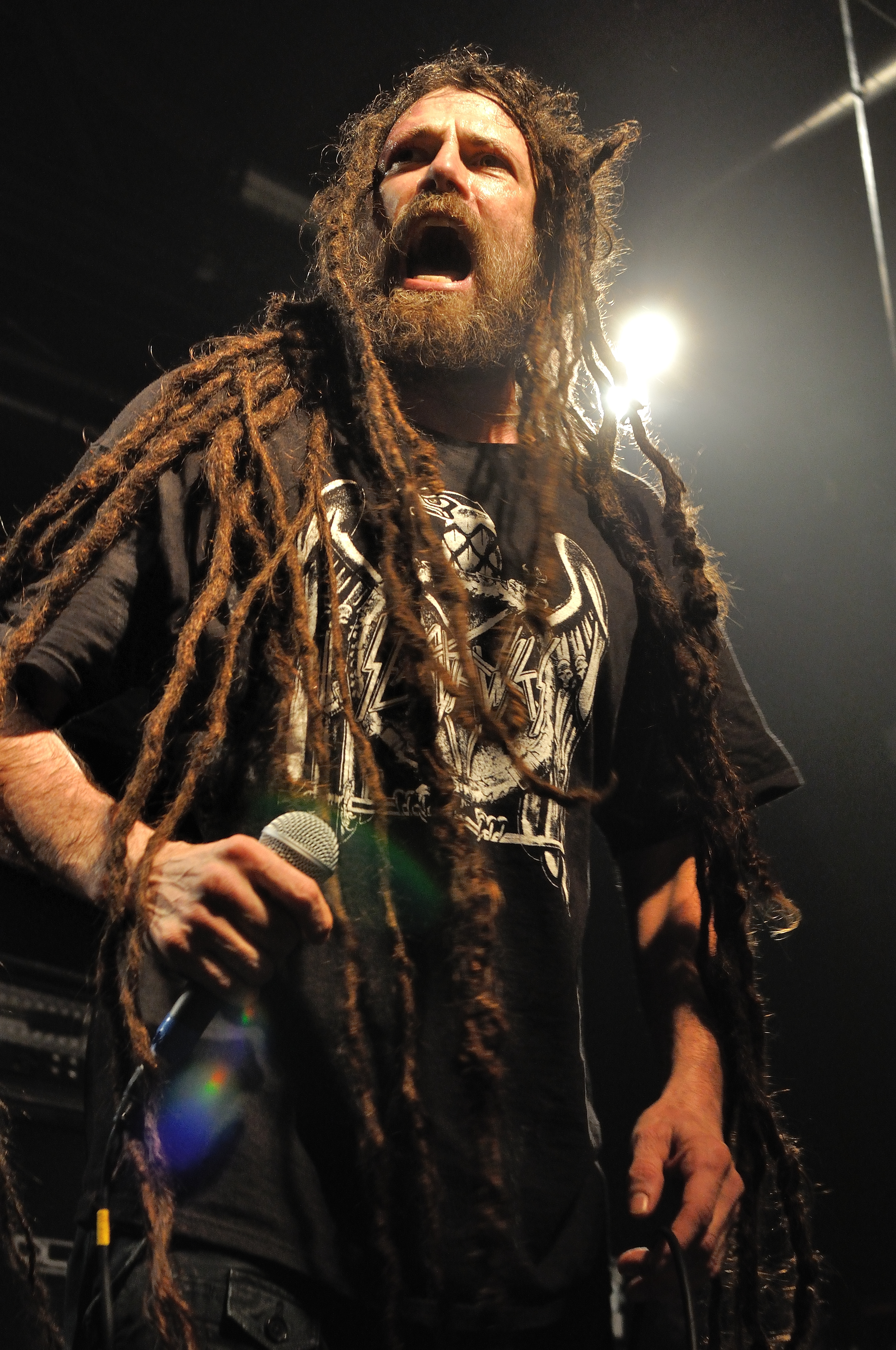 Six Feet Under at Hatefest 2015 in Berlin.